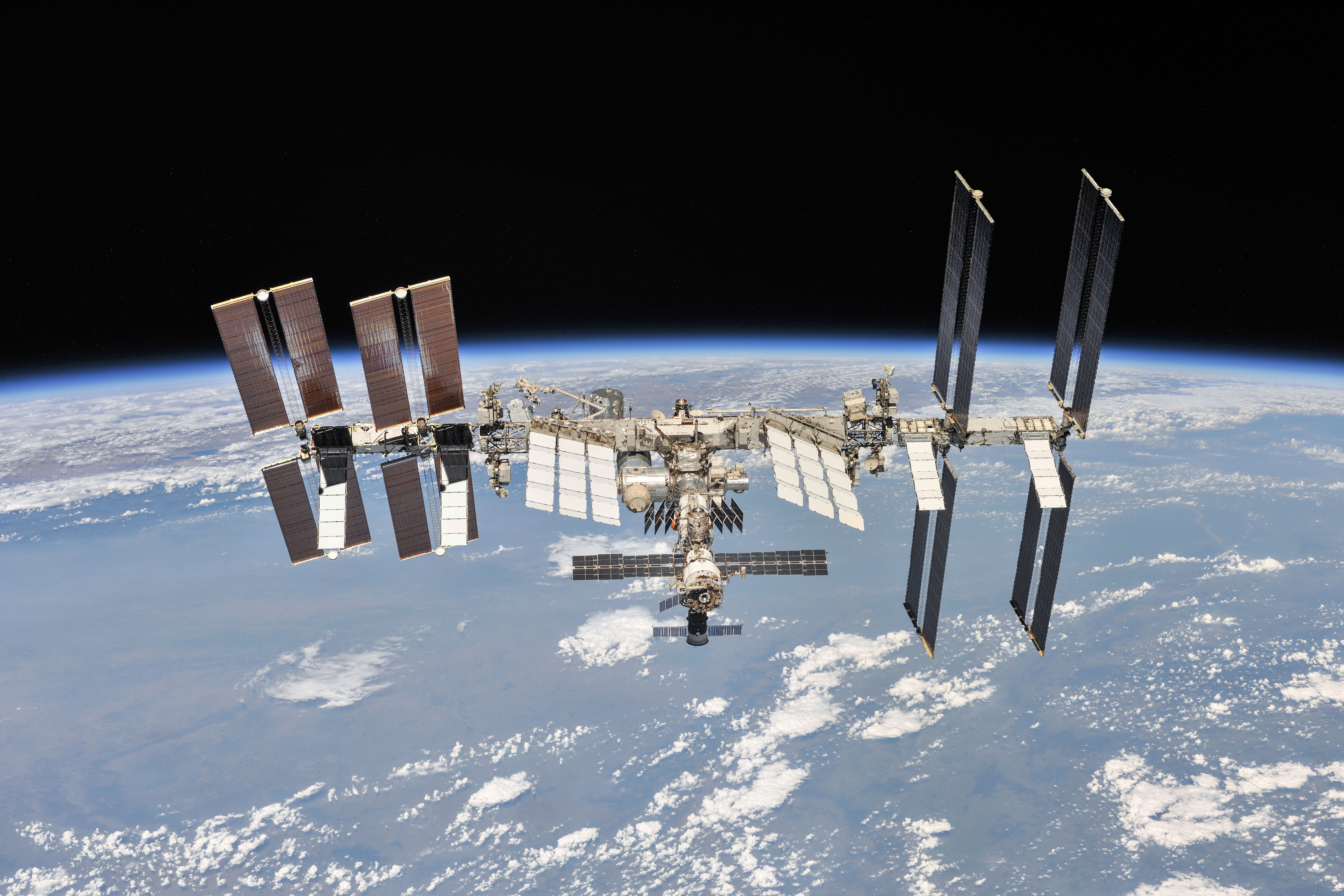 The International Space Station photographed by Expedition 56 crew members from a Soyuz spacecraft after undocking. NASA astronauts Andrew Feustel and Ricky Arnold and Roscosmos cosmonaut Oleg Artemyev executed a fly around of the orbiting laboratory to take pictures of the station before returning home after spending 197 days in space. The station will celebrate the 20th anniversary of the launch of the first element Zarya in November 2018.